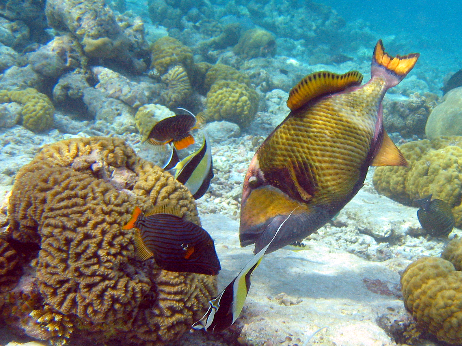 Titan Triggerfish (Balistoides viridescens) is the largest of all triggerfish species. Also visible are the black and yellow coloured Moorish Idols (Zanclus cornutus) and Orange-lined triggerfish (Balistapus undulatus). Photographed by Jan Derk in March 2006 in Fihalhohi, Maldives.